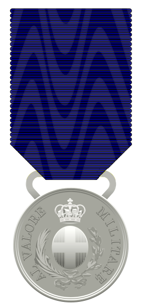 Italian al valor militare (military valour) silver medal (Kingdom of Italy)